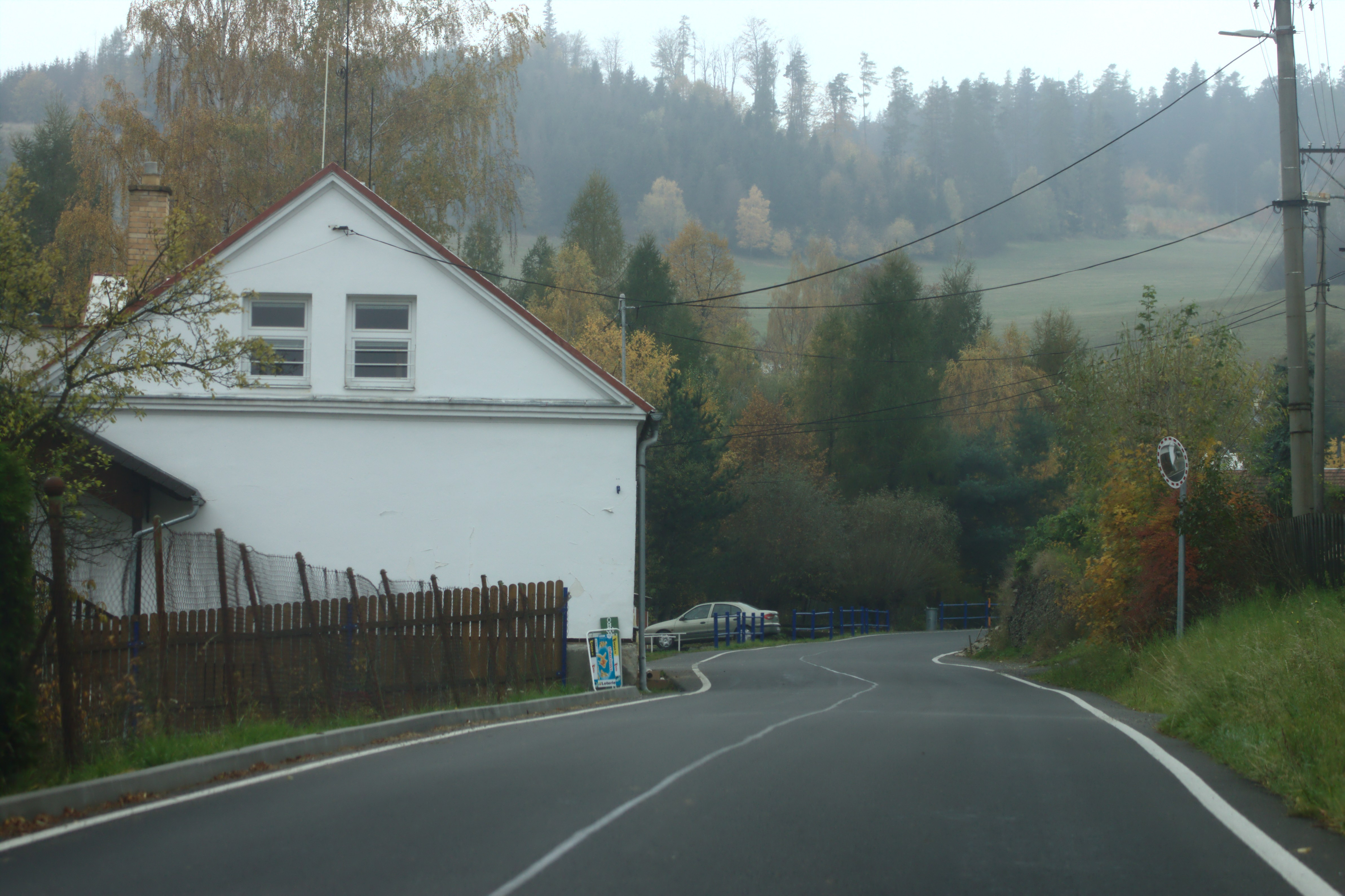 A building next to the main road in the village of Čaková, Moravian-Silesian Region, CZ